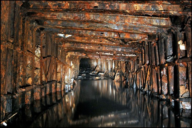 Grinkle mine culvert Peering into the gloom you could hear faint rumbling noises ahead, bits of debris fell into the water, its noise magnified alarmingly loud underground. The tunnel was getting smaller and more twisted too, serious forces were at work here, it seemed as if the whole structure was been pushed into submission. We looked at this view for a while pondering if we should go any further. Full size pictures, history and maps of Grinkle iron mine can be seen here*